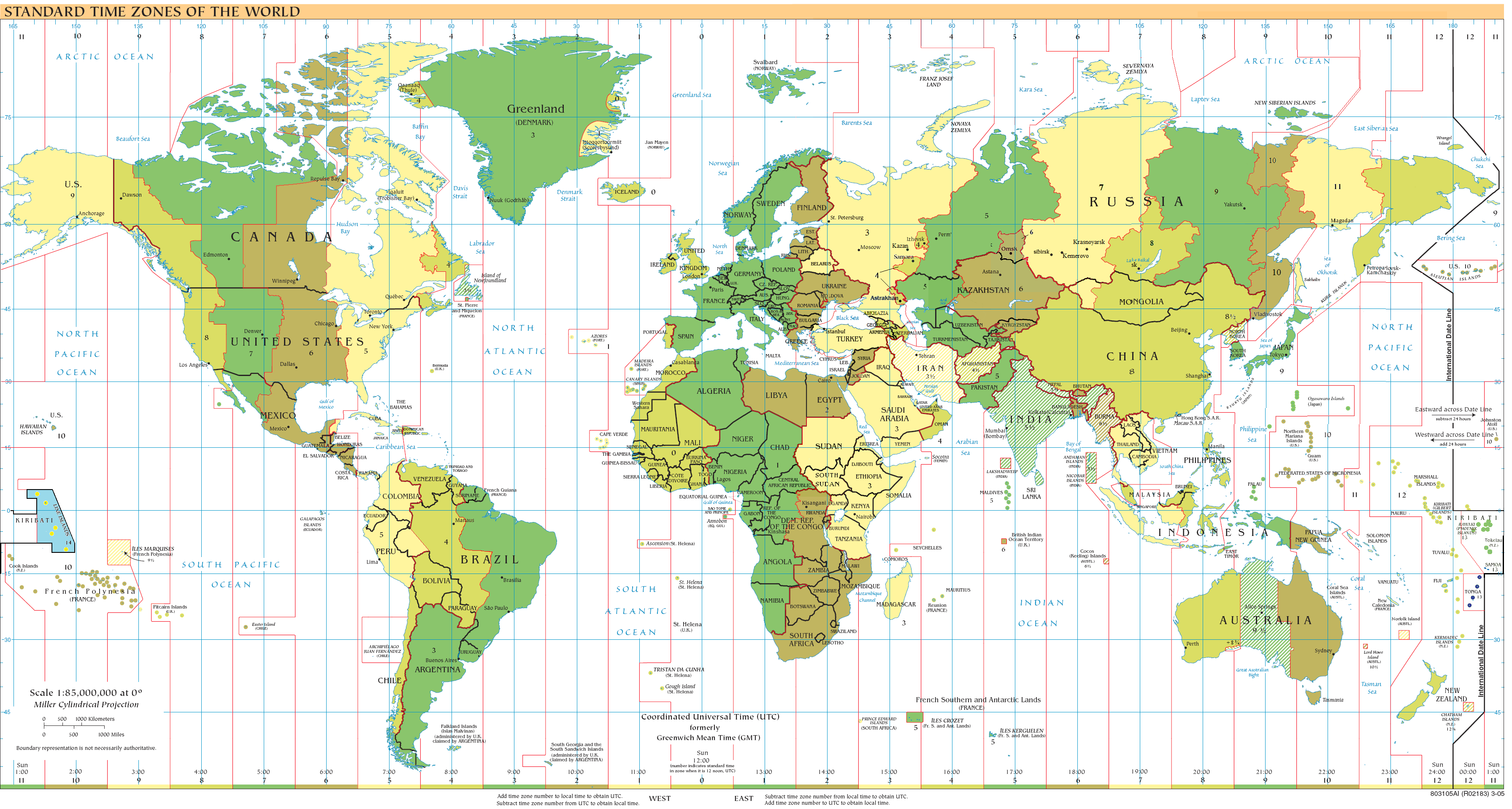 Copy of Timezones2011.png Edited to show UTC+14 Light Blue - UTC+14 Sea Areas Yellow - UTC+14 all year round